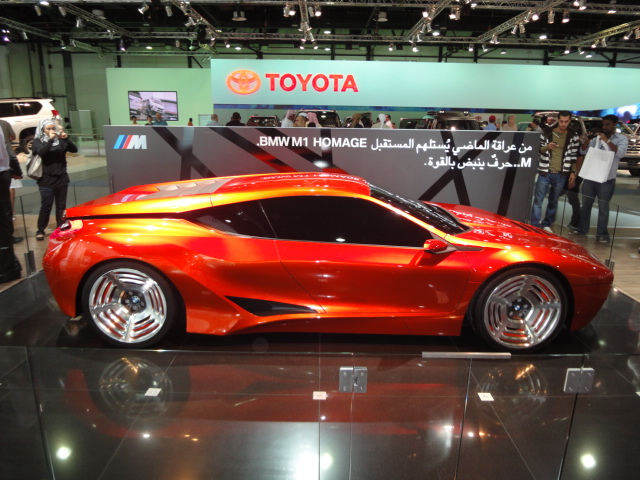 2009 BMW M1 Homage at the 10th Dubai International Motor Show